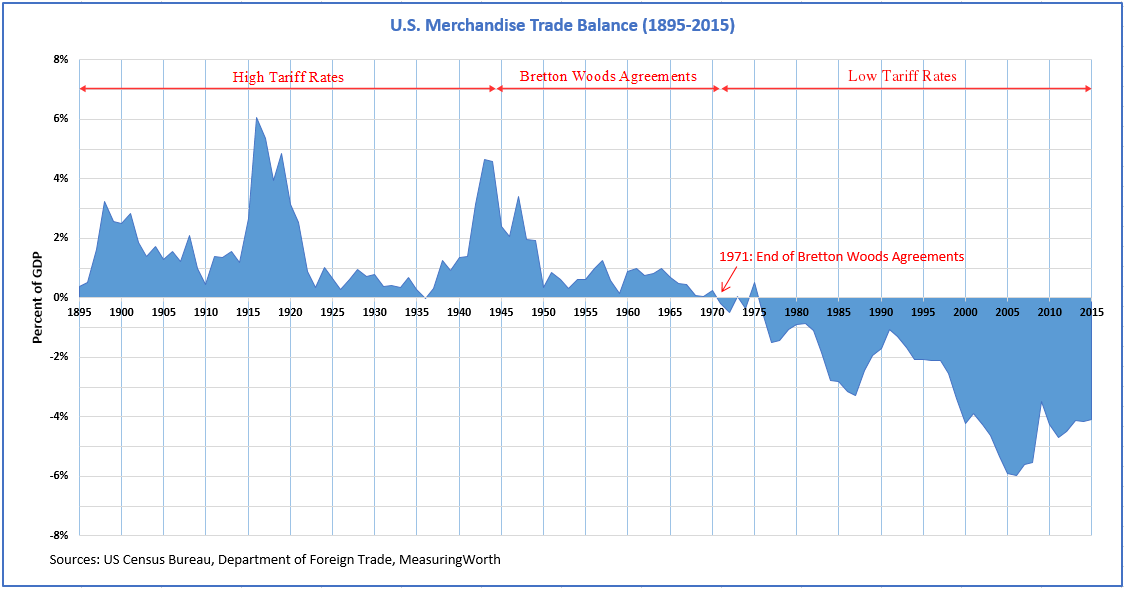 U.S. Trade Balance (1895-2015) and Trade Policies